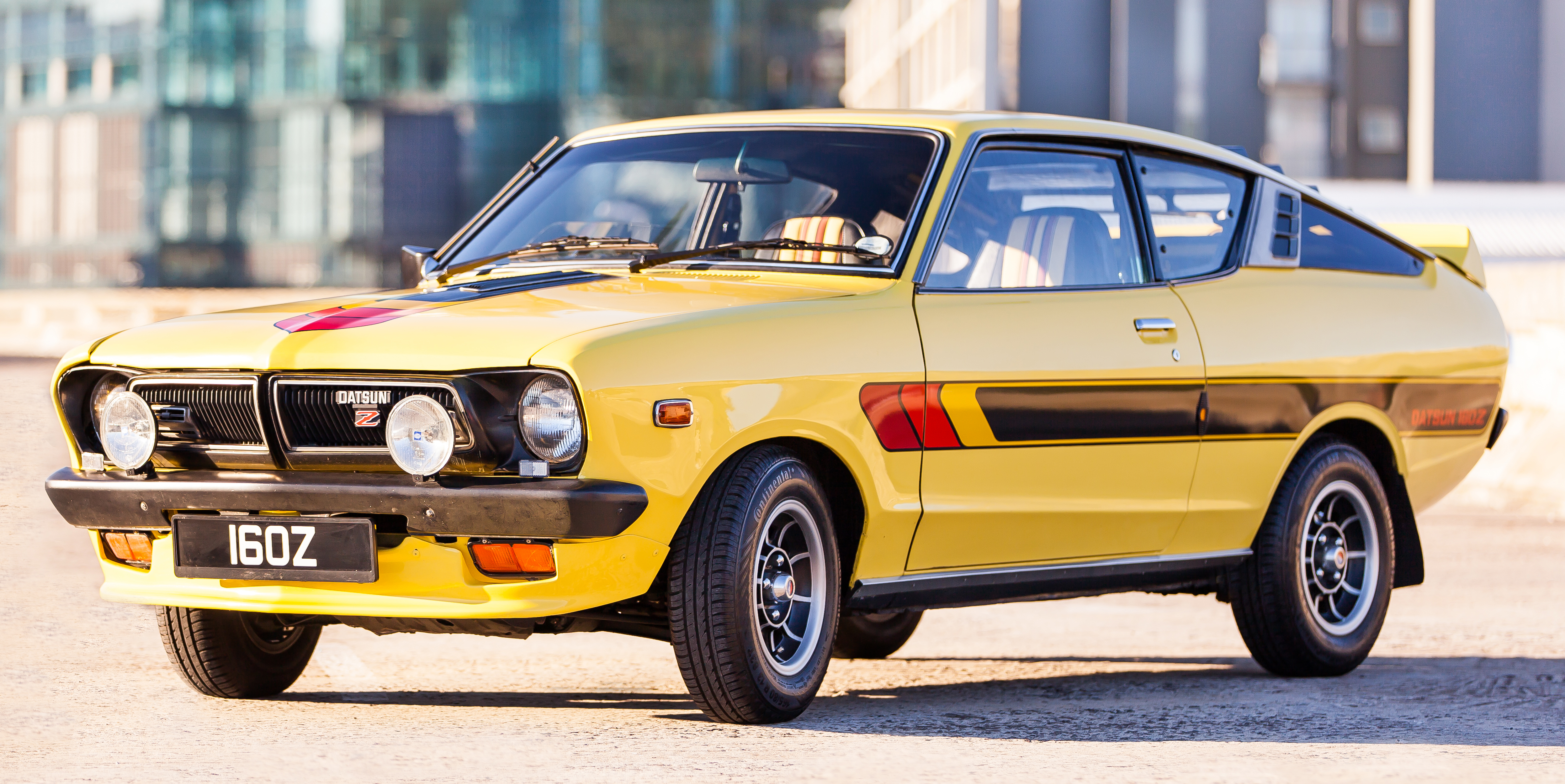 Canary yellow Nissan-Datsun (B210) 160Z Sports Coupe, South African. Courtesy of Lee-Ann Vigus - &